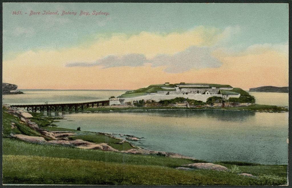 Format: Postcard, photo mechanical print. Part Of: Powerhouse Museum Collection General information about the Powerhouse Museum Collection is available at Persistent URL: Acquisition credit line: Gift of Elizabeth Bullard, 1967